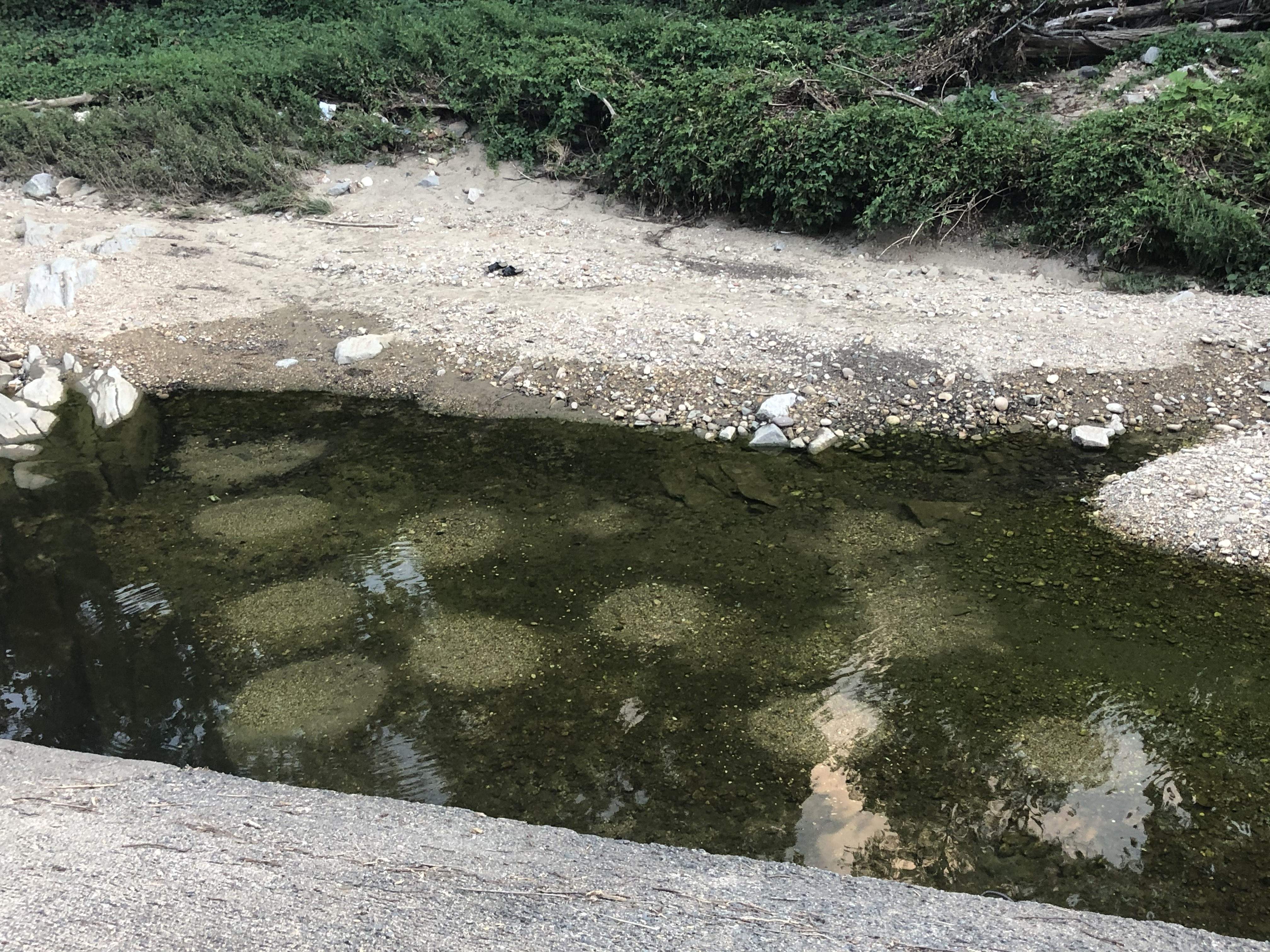 Redds created by trouts on riverbed during mating season